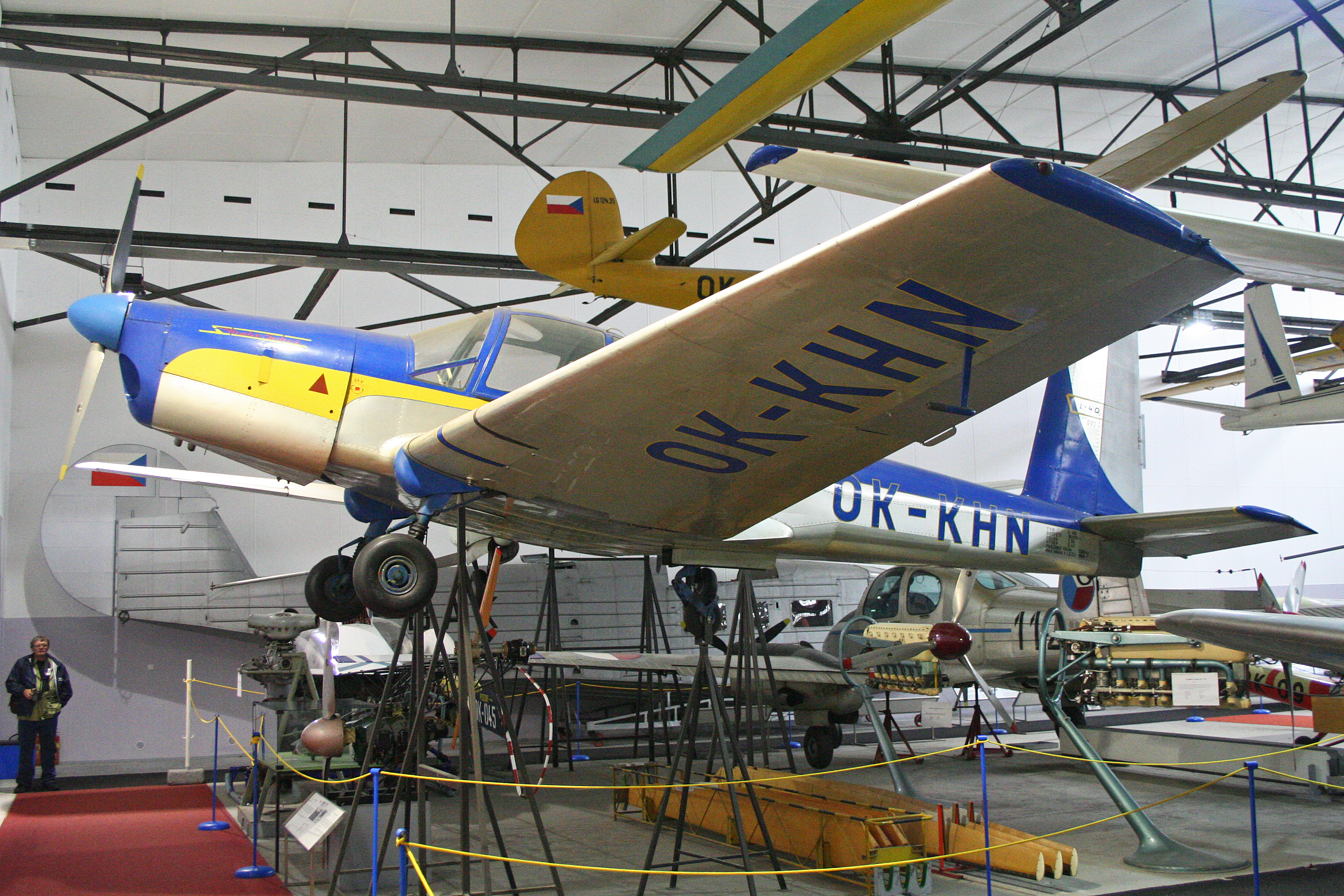 msn 150002. On display in the Post War hangar, Kbely museum, Czech Republic. 07-10-2012